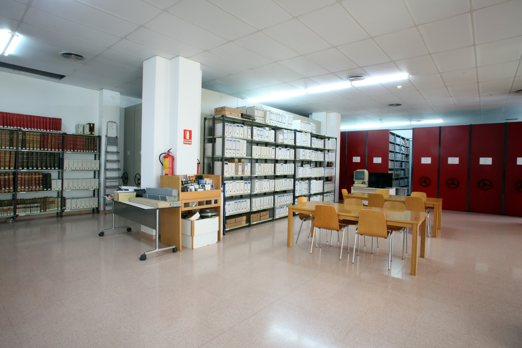 Reference room of the Municipal Archives of El Masnou (Spain). Down and to the left, there are the compact cabinets.